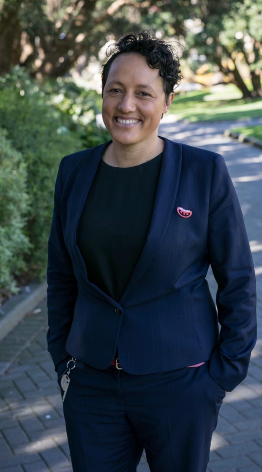 Labour MP Kiritapu Allan